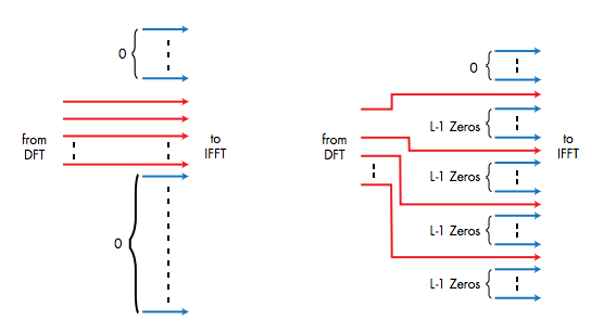 Mapeig localitzat vs distribuit